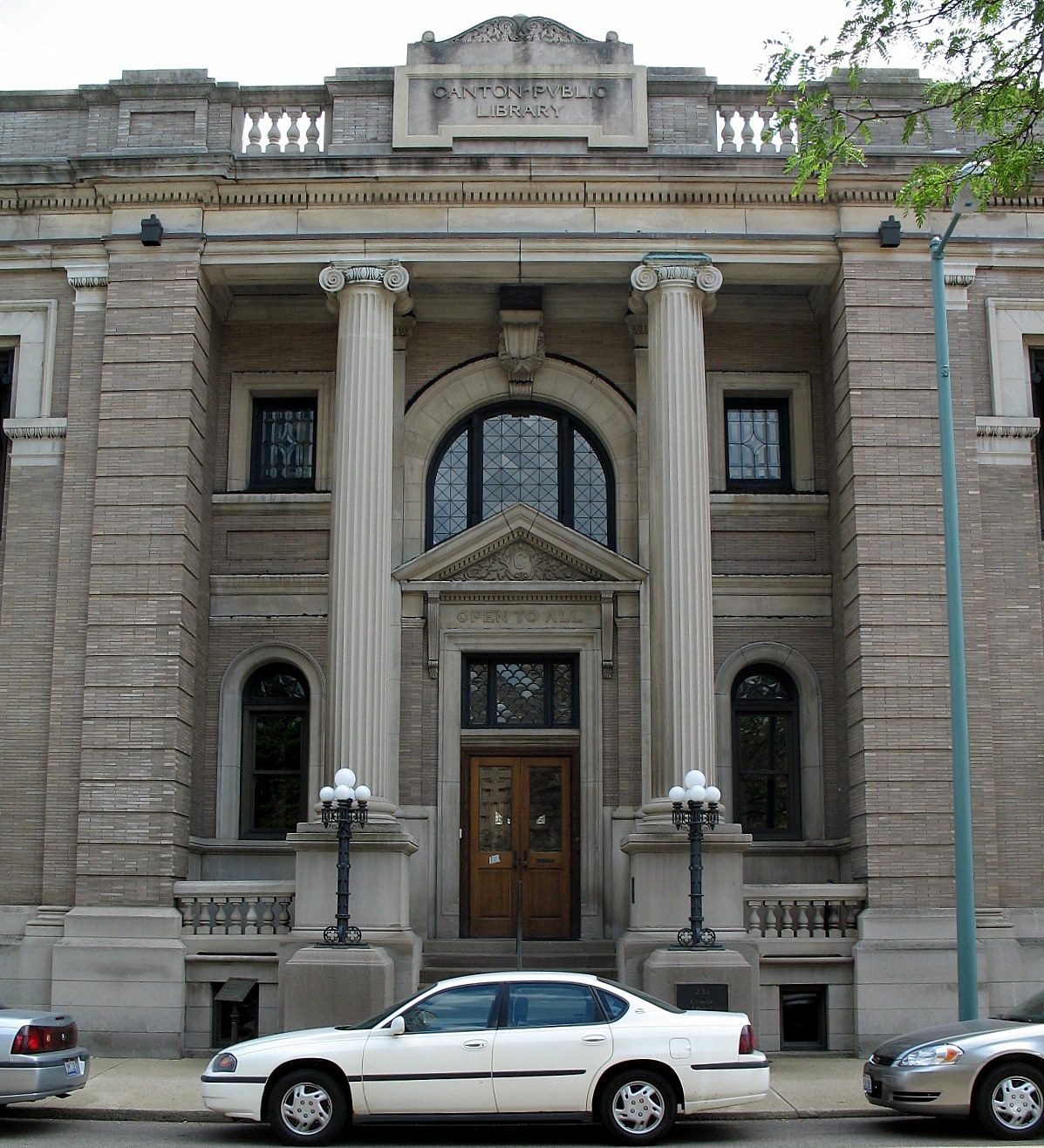 National Register of Historic Places listings in Stark County, Ohio Canton Public Library, 236 3rd St., SW, Canton, Ohio